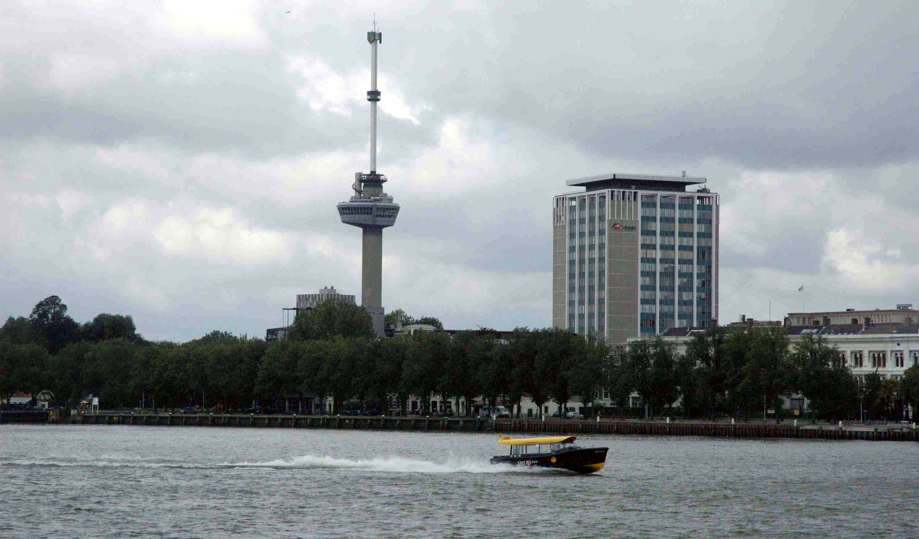 Euromast, Rotterdam, The Netherlands 2005 self made photograph